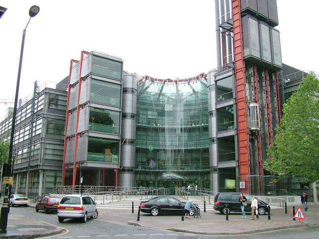 Channel 4 Building - Horseferry Road - London - England - photo by and copyright Tagishsimon - 31st May 2004